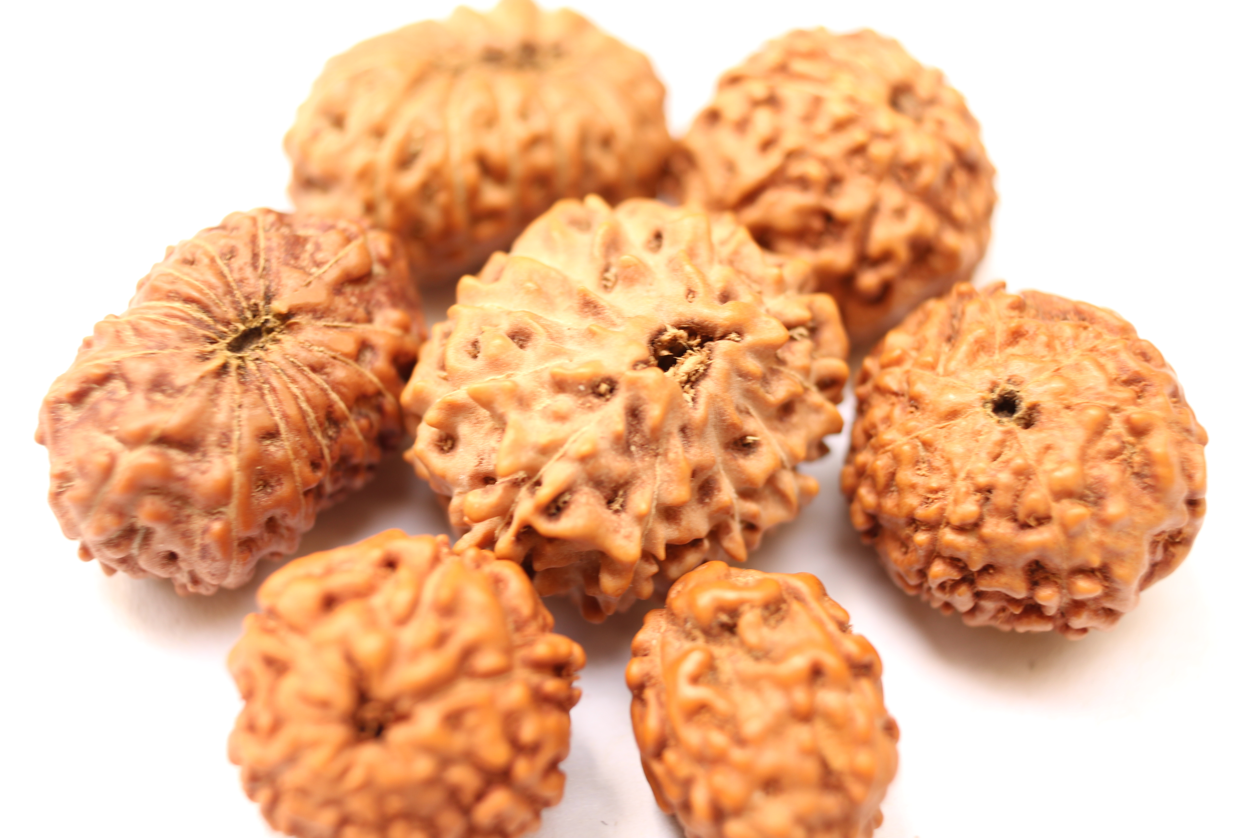 Rudraksha beads are actually the seeds of a plant named Elaeocarpus ganitrus. Since age old times, Hindus have been wearing Rudraksha beads in their bodies. Hindu scriptures talk of several benefits of wearing Rudraksha. Rudraksha beads is known to enhance the power of mind and sharpen focus and concentration. These properties are highly useful to Sadhus for meditation, students for learning and grownups for excelling in their careers.